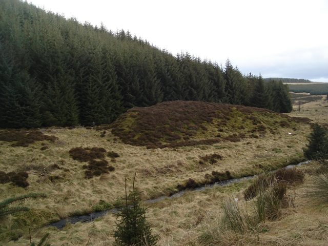 Dragon's Grave, or "Wormy Hillock", 3 km from Milton of Lesmore, Aberdeenshire, Great Britain. The true story:- the people wanted to bury the dead dragon but it was such a big hole to dig that the dragon was fast becoming a health-hazard, so when the hole was only half-dug, they just rolled the rotting dragon in, and used the earth that they'd already dug out, to cover it over. So the mound is still there, hundreds of years later.